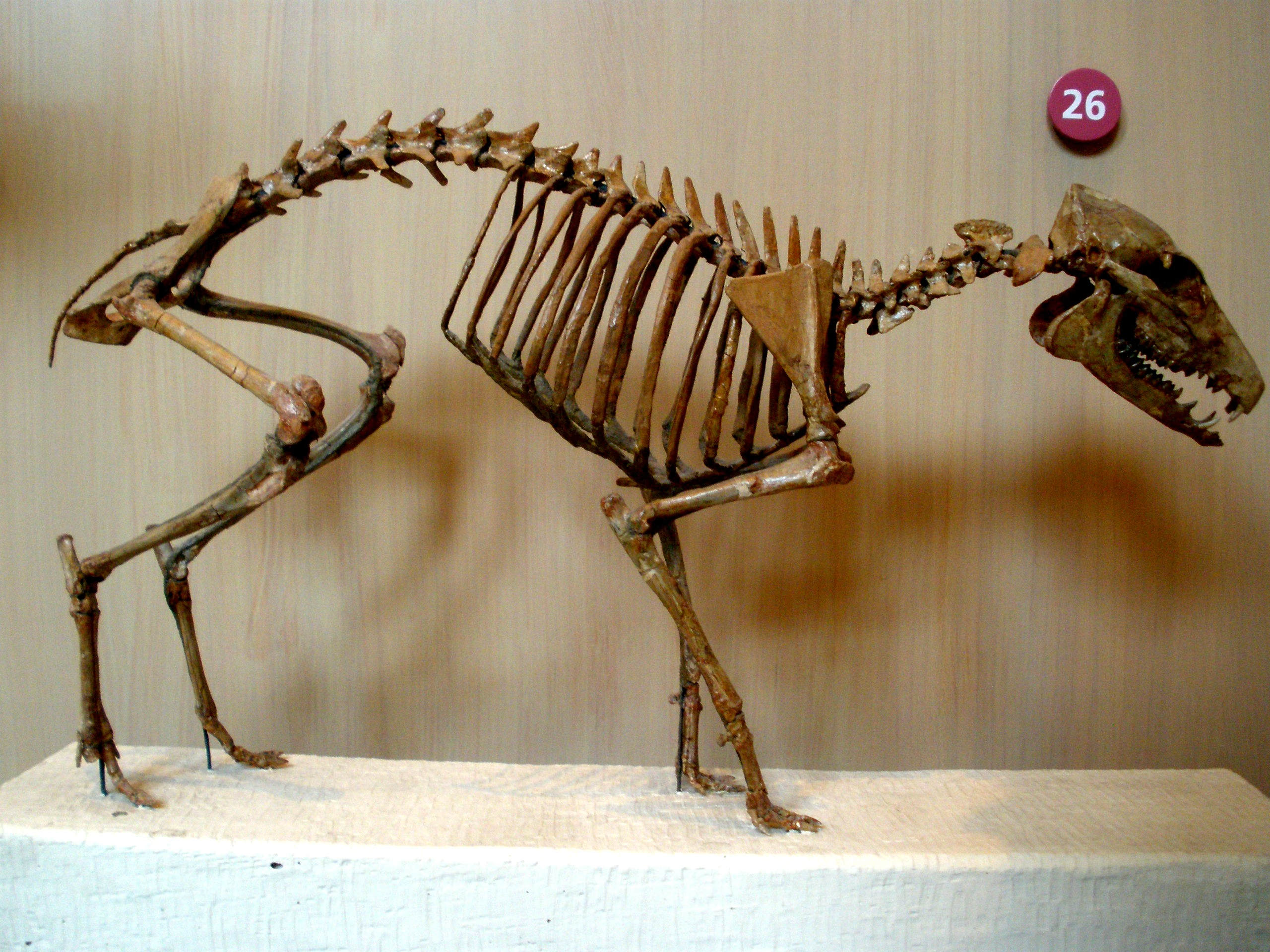 Skeleton of Hypertragulus calcaratus, a fossil artiodactyl, on display in the "American Museum of Natural History" in New York